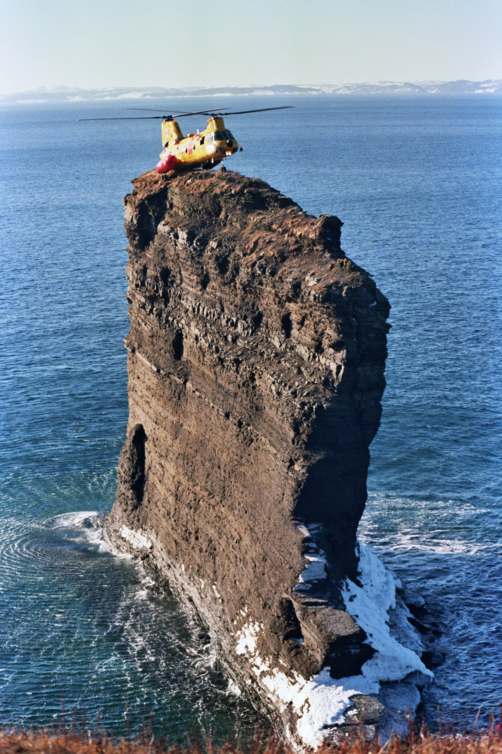 Canadian Forces Boeing Vertol CH-113 Labrador helicopter from CFB Gander, landing on tip of Bell Island in 1987. Captain Randy Price (check pilot) and Captain David Barkes at the controls. The rock sea stack is locally known as 'the Clapper'.